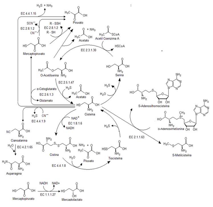 Cysteine Metabolic Map